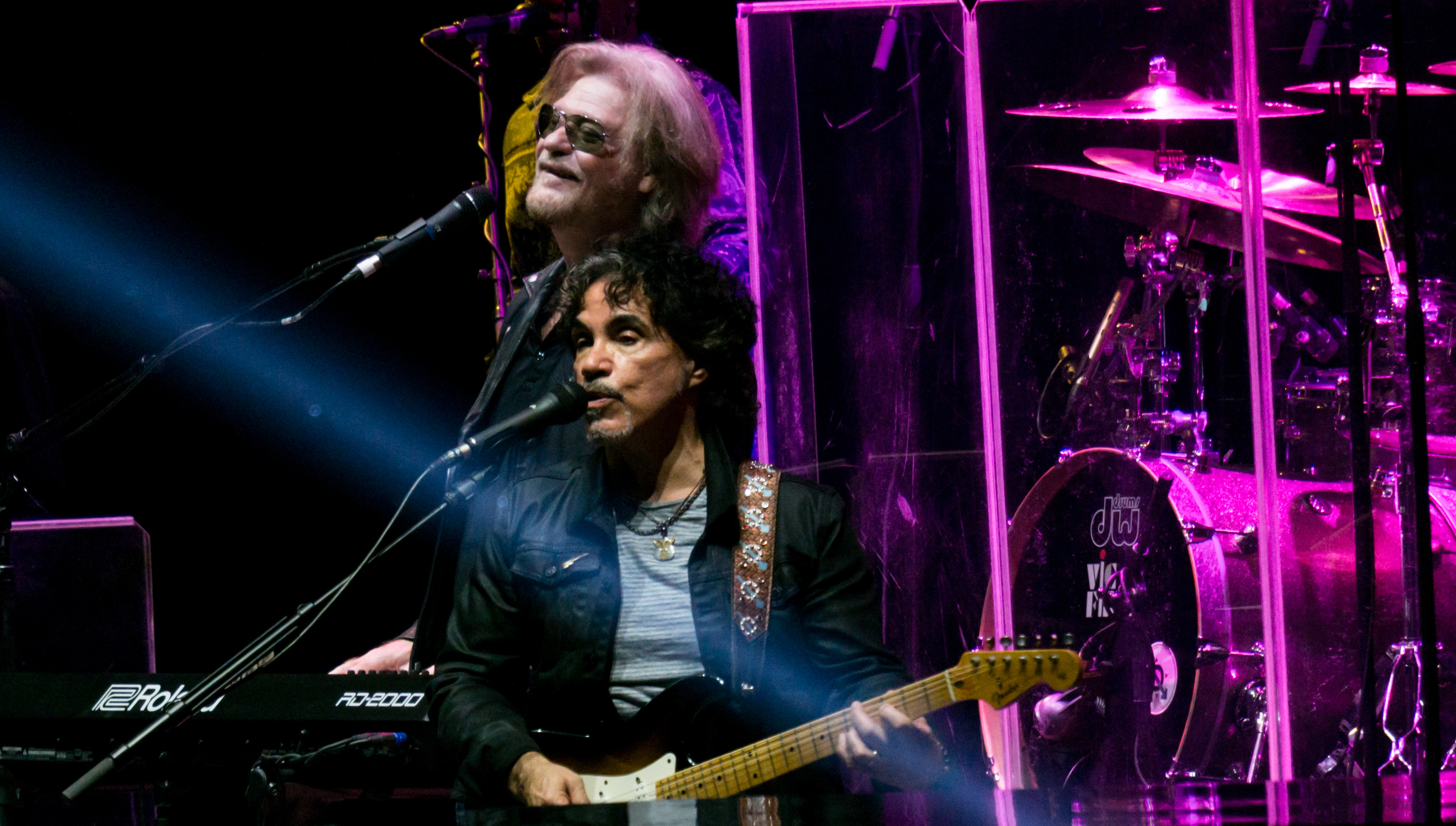 HallOatesO2281017-55